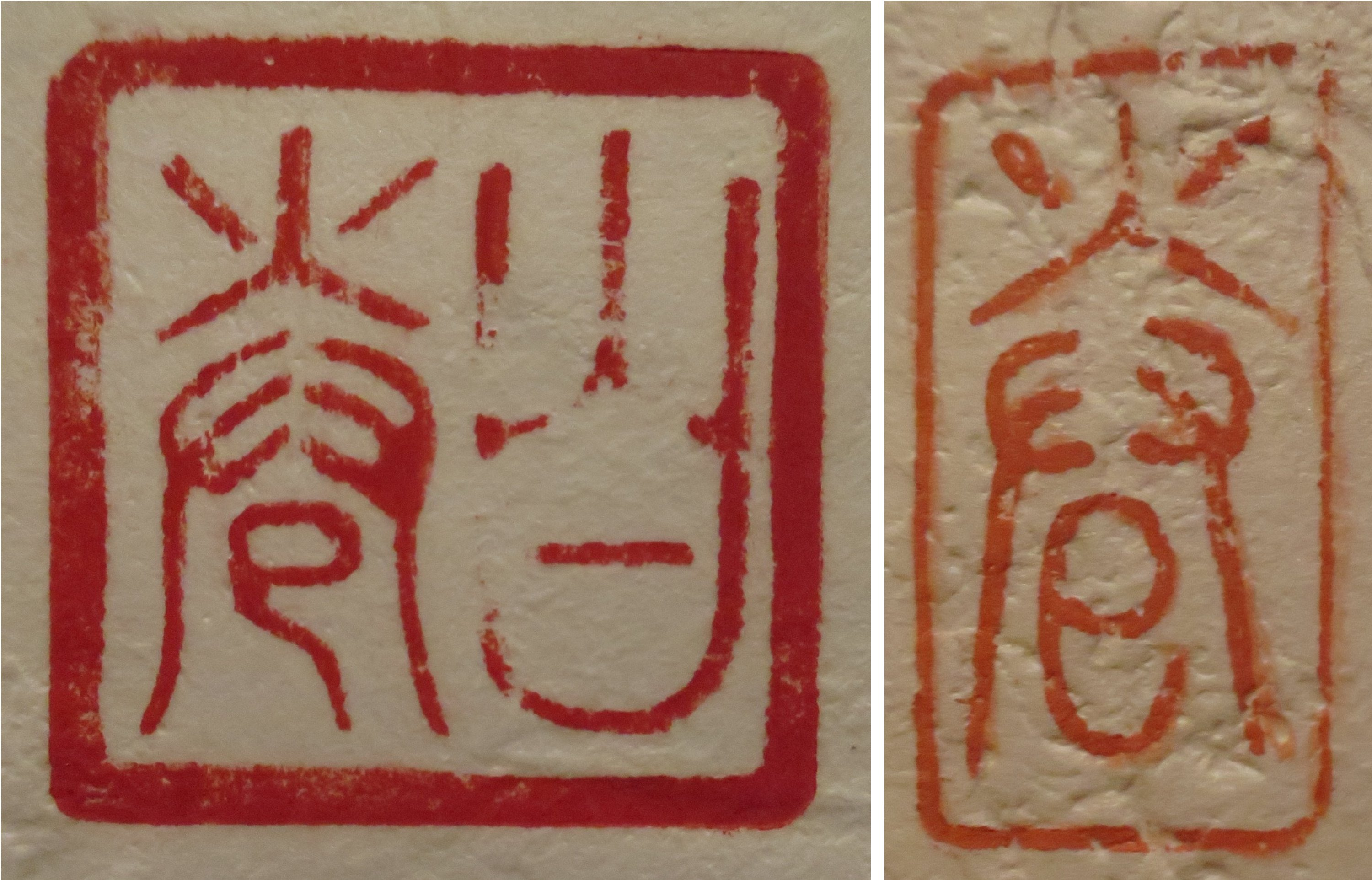 Seals of Japanese artist Maki Haku. The left seal reads Maki Haku 巻白 and the right seal reads Maki 巻